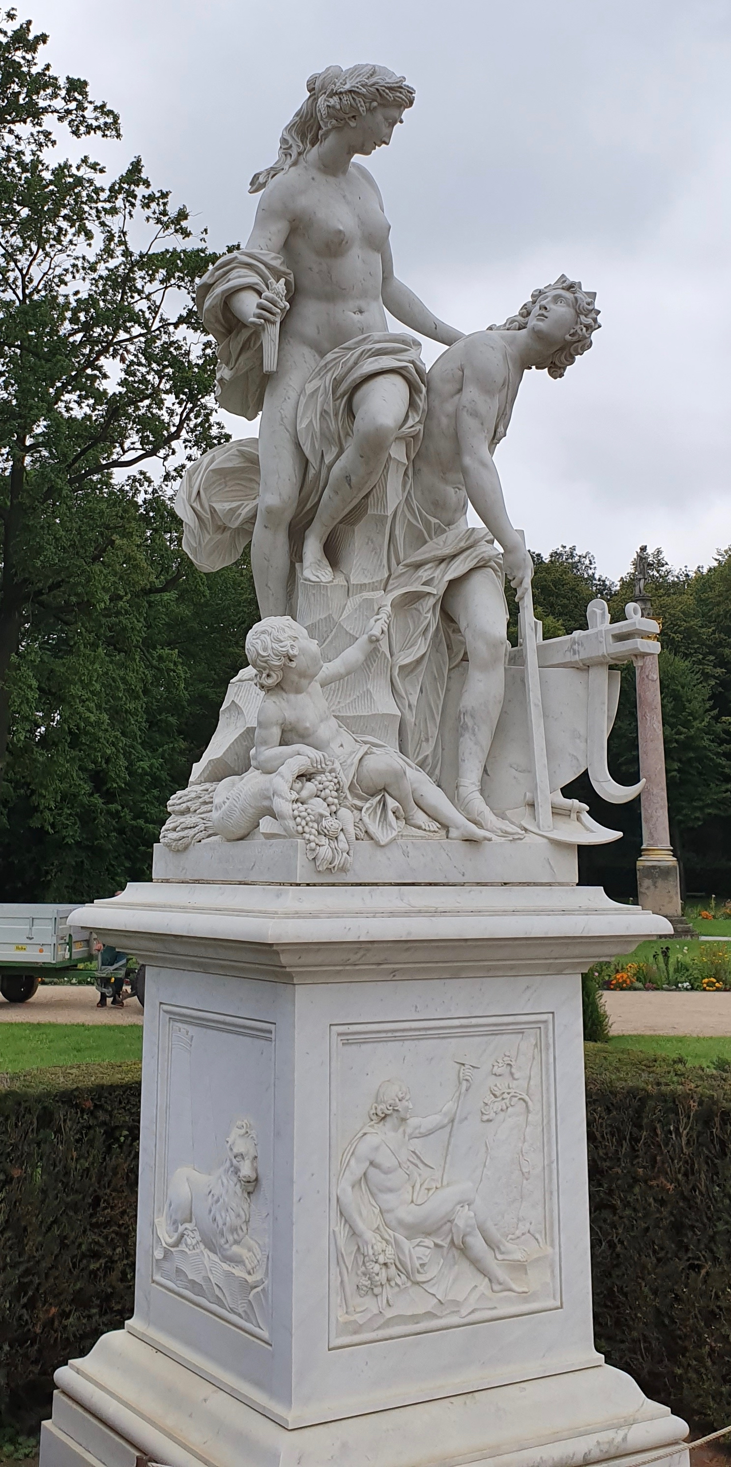 Ceres (Demeter) teaches Triptolemos to plow by François Gaspard Adam at Sanssouci